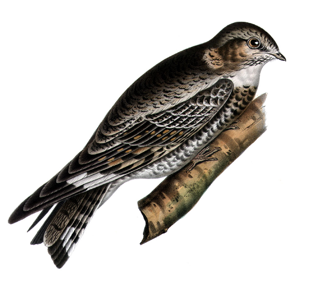 Lesser Nighthawk , Chordeiles acutipennis texensis (original caption Chordeiles texensis), hand-colored lithograph